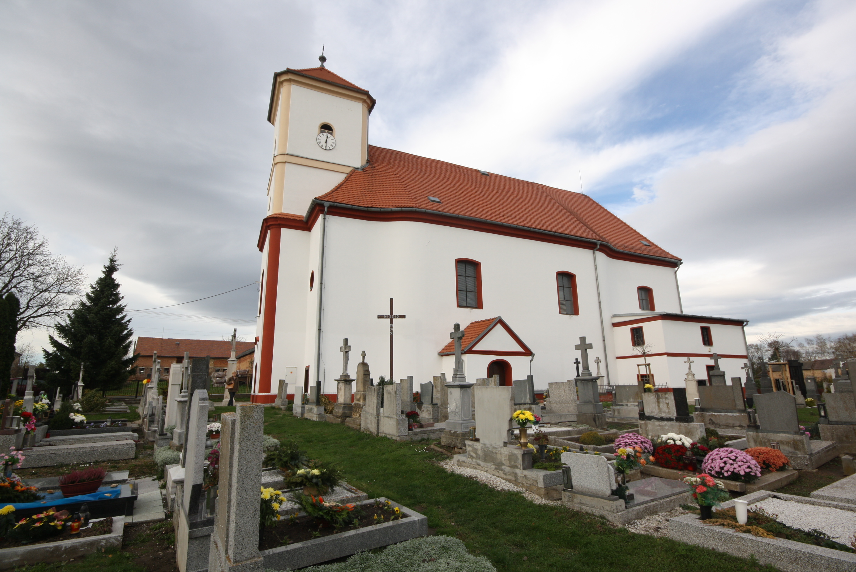 Třebom (Opava disctrict, Czech Republic)